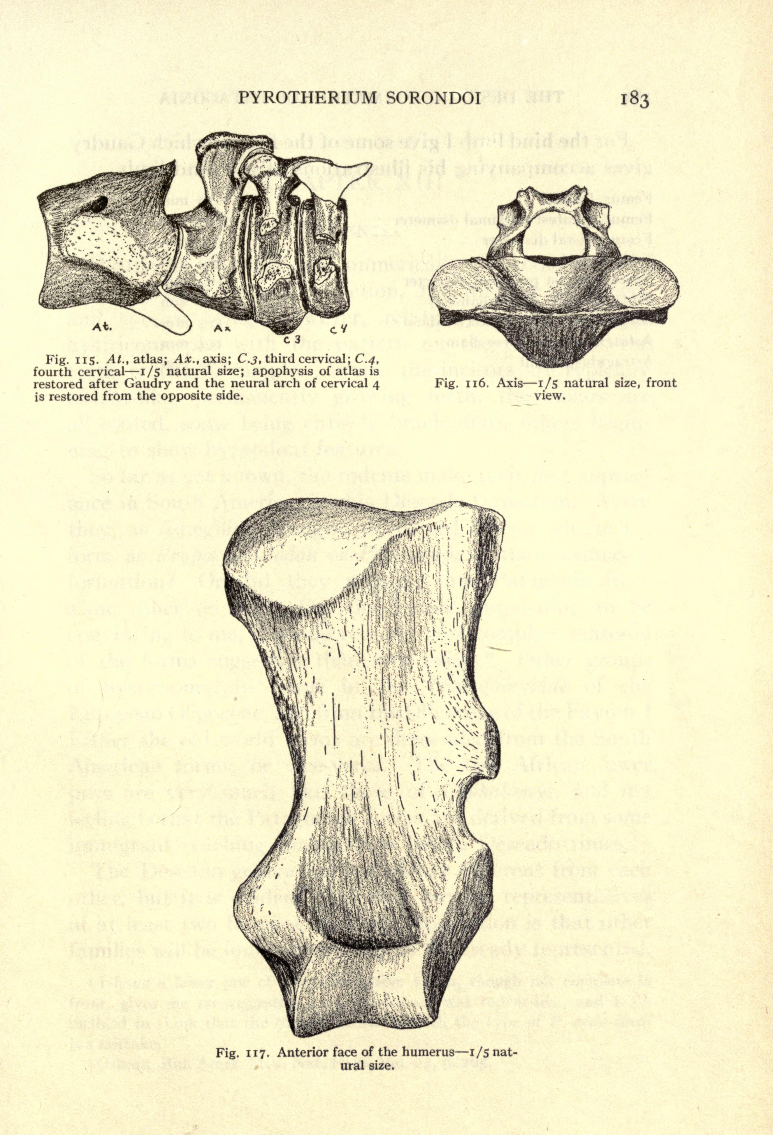 The Deseado Formation of Patagonia / Frederic Brewster Loomis.